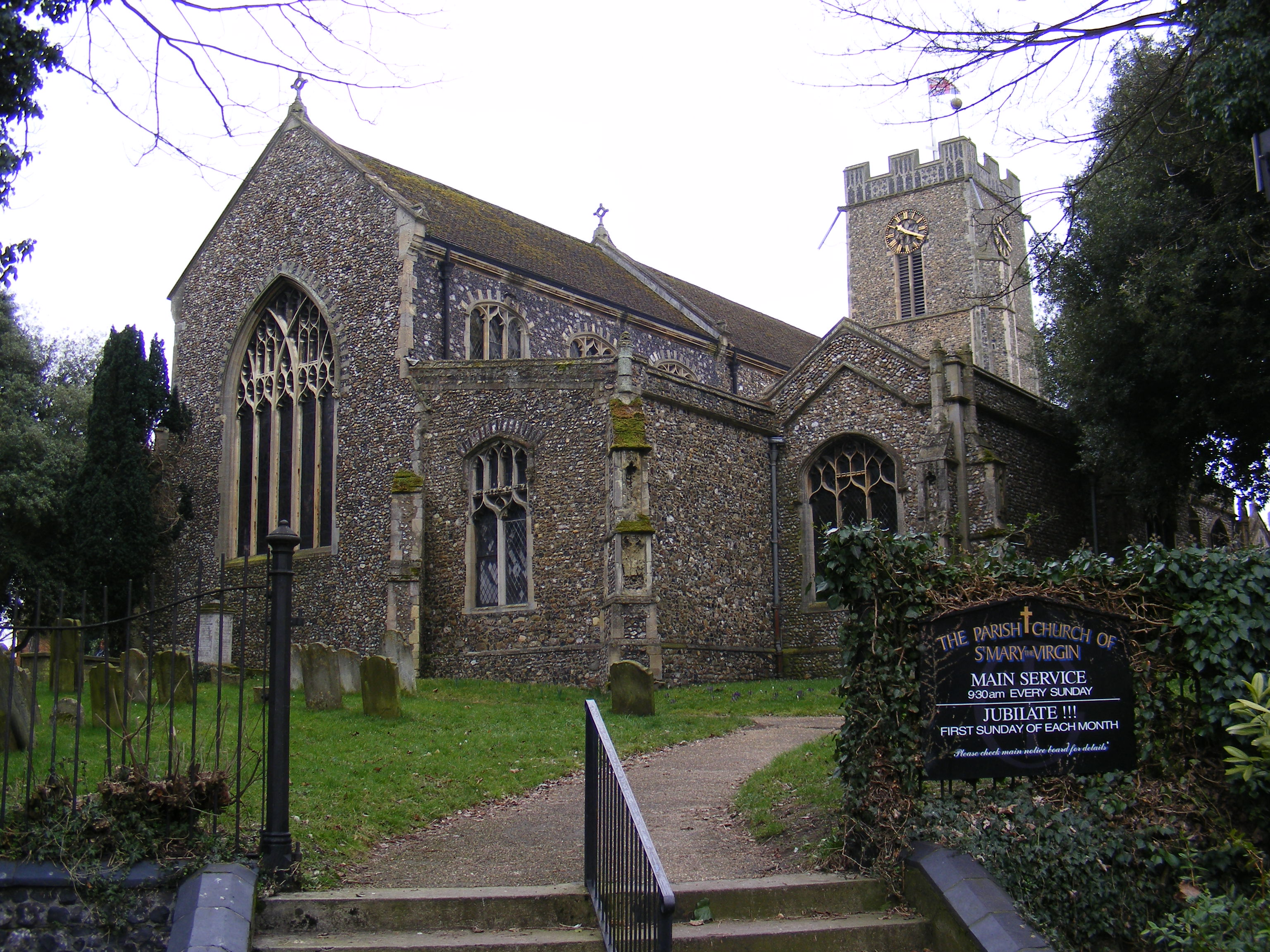 Church of St Mary in Halesworth, Suffolk, England. A Grade I listed medieval church.